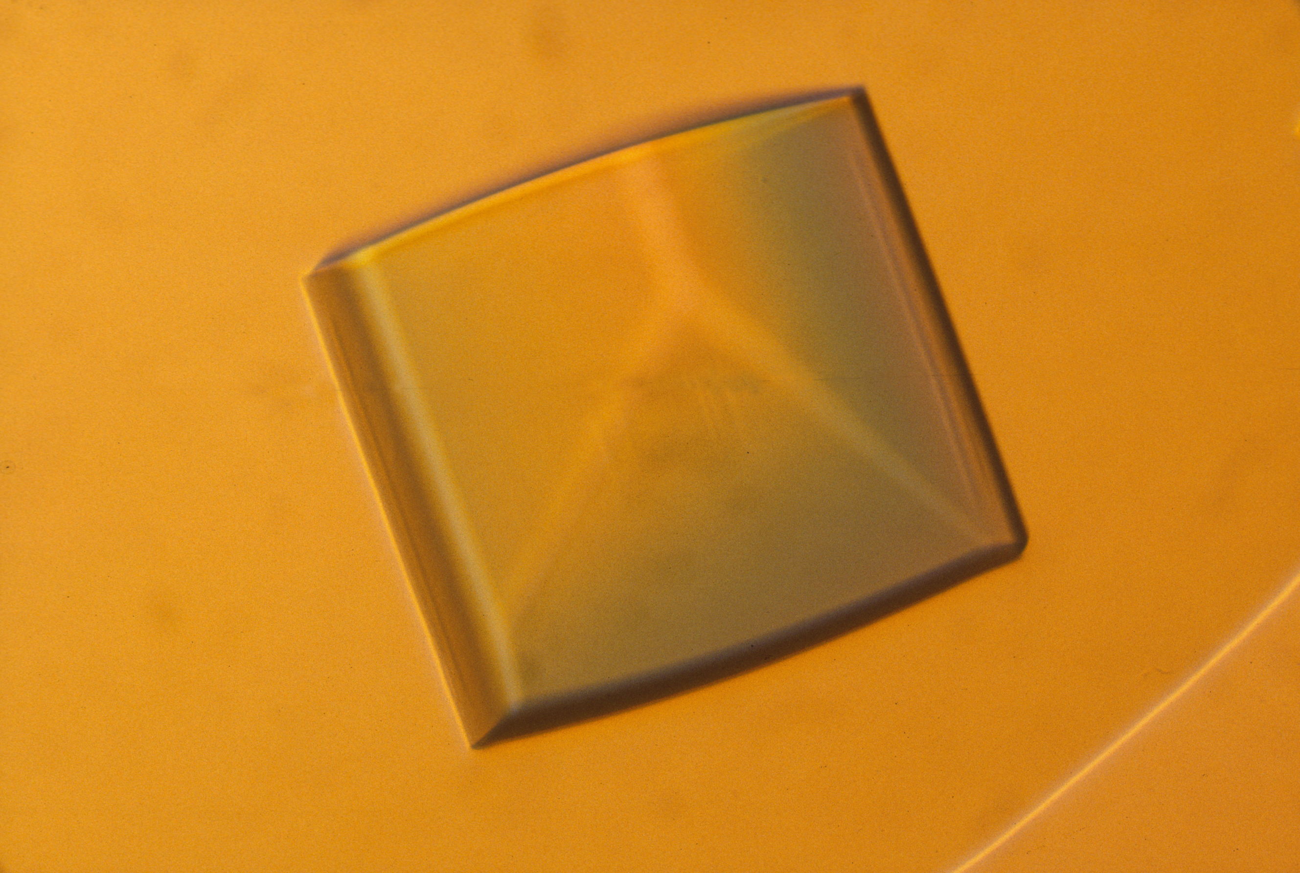 Protein crystals used in X-ray crystallography to determine protein structure.